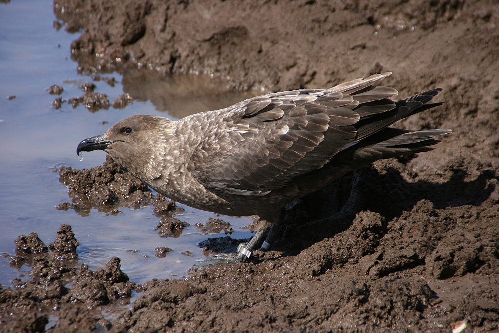 A brown skua Stercorarius antarcticus on King George Island, Antarctica